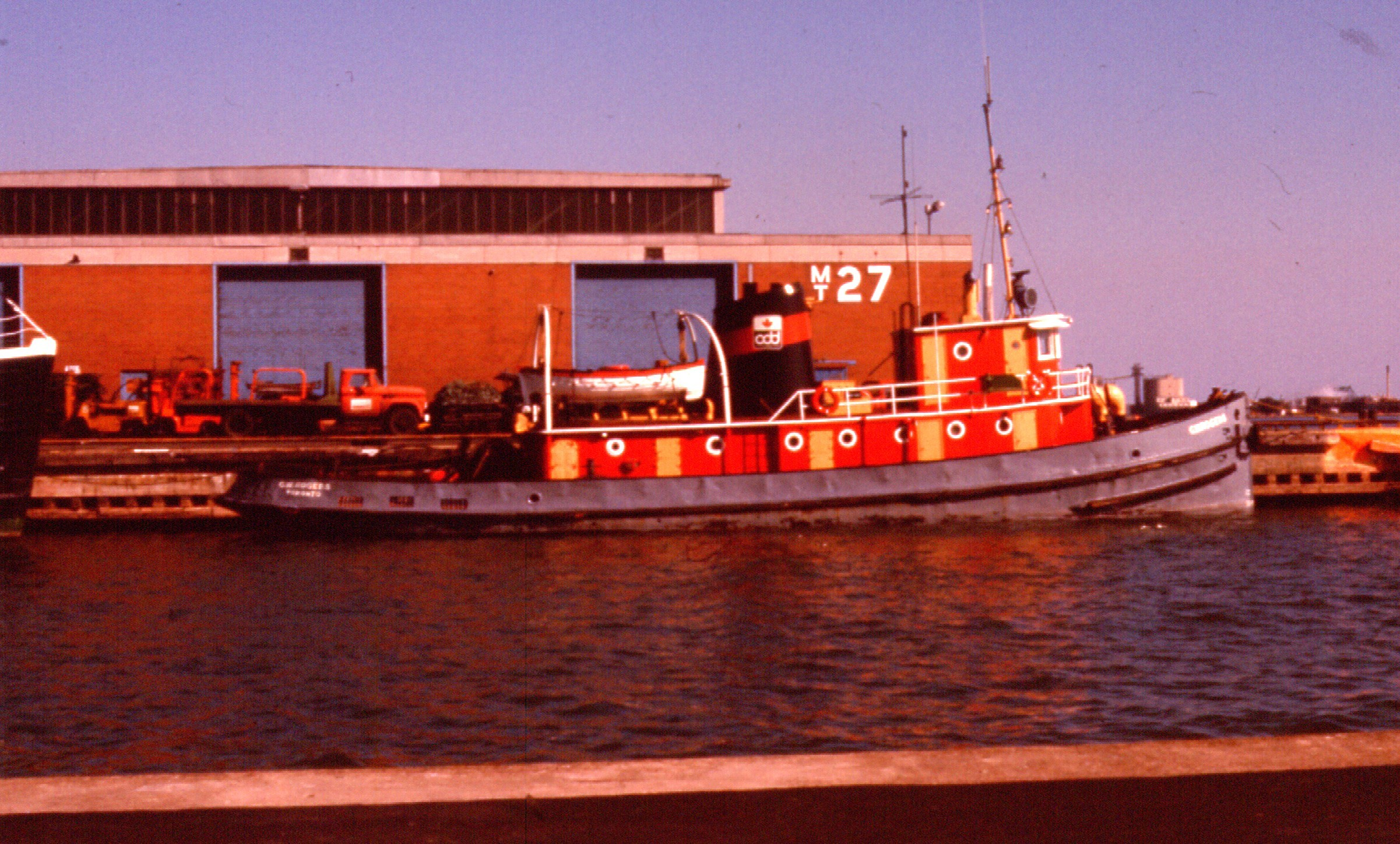 Toronto Islands 03